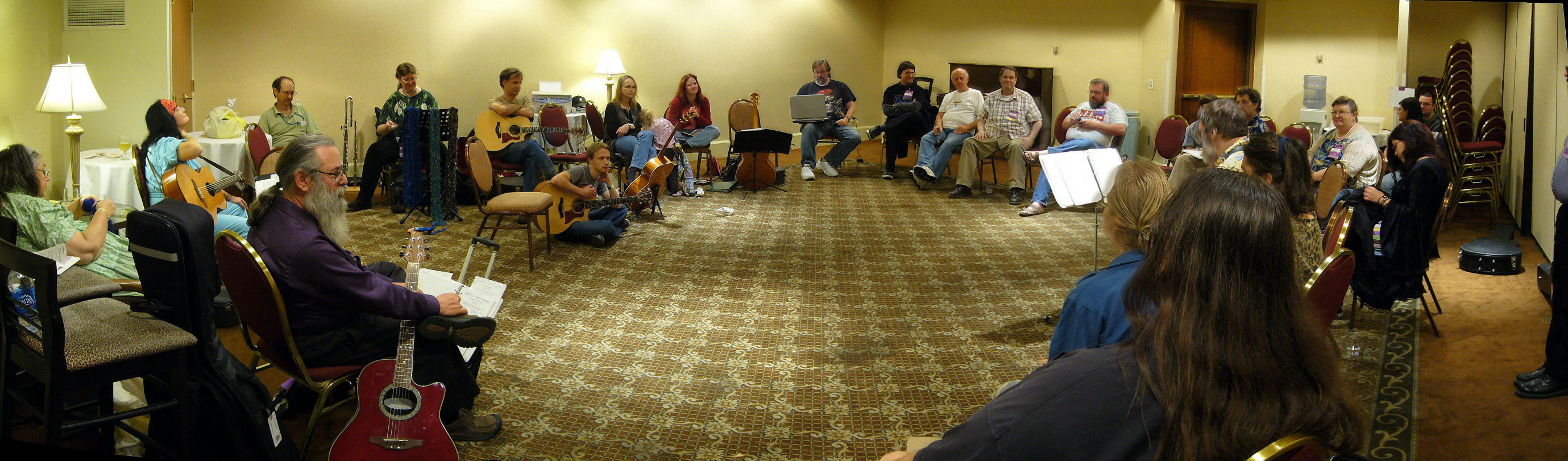 The Saturday night Filk Music circle at the BayCon science fiction convention in San Jose, California, on May 27th, 2006. Photo by Tony Fabris.